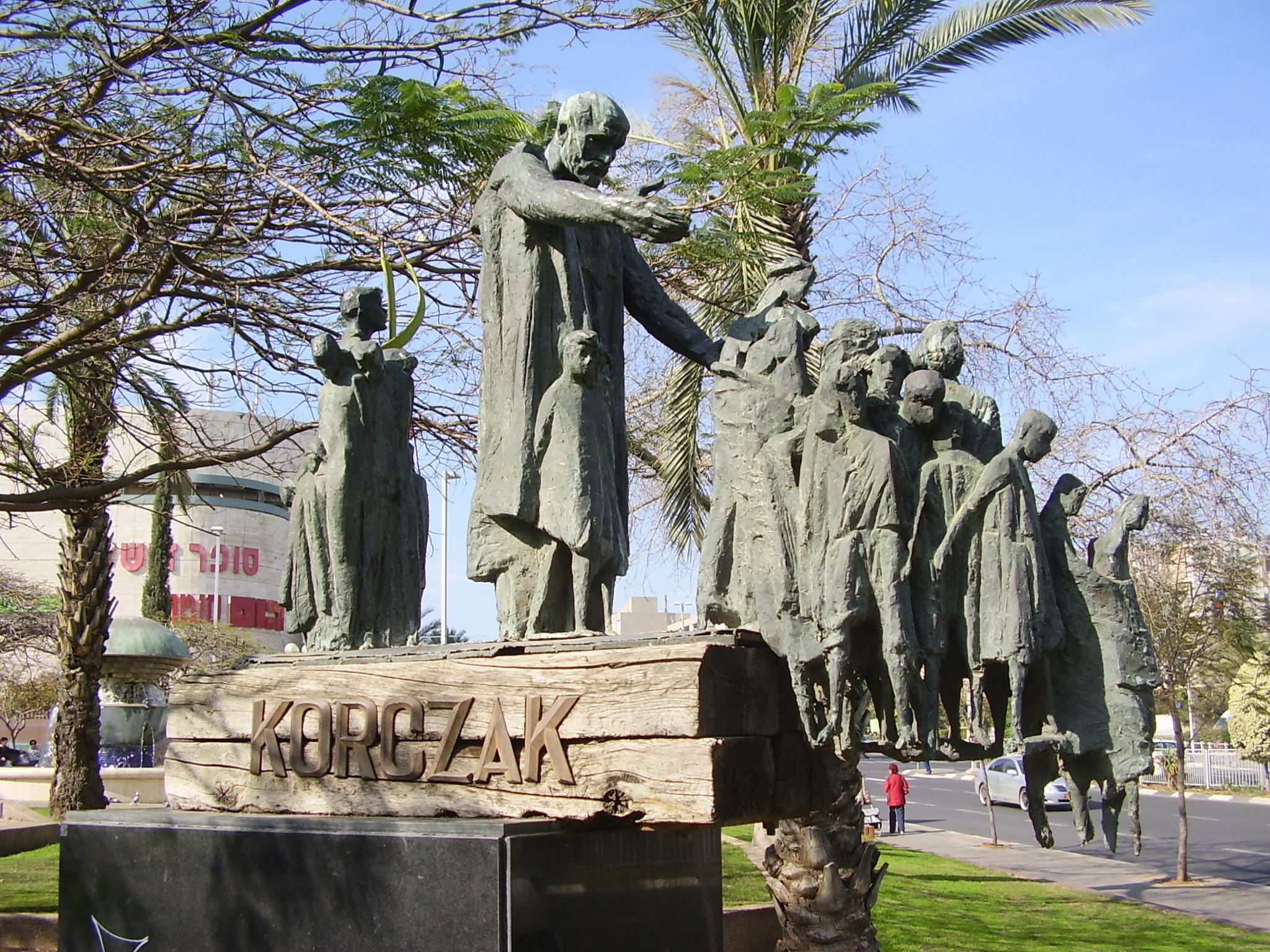 monument to janusz korczak and the children in bat-yam